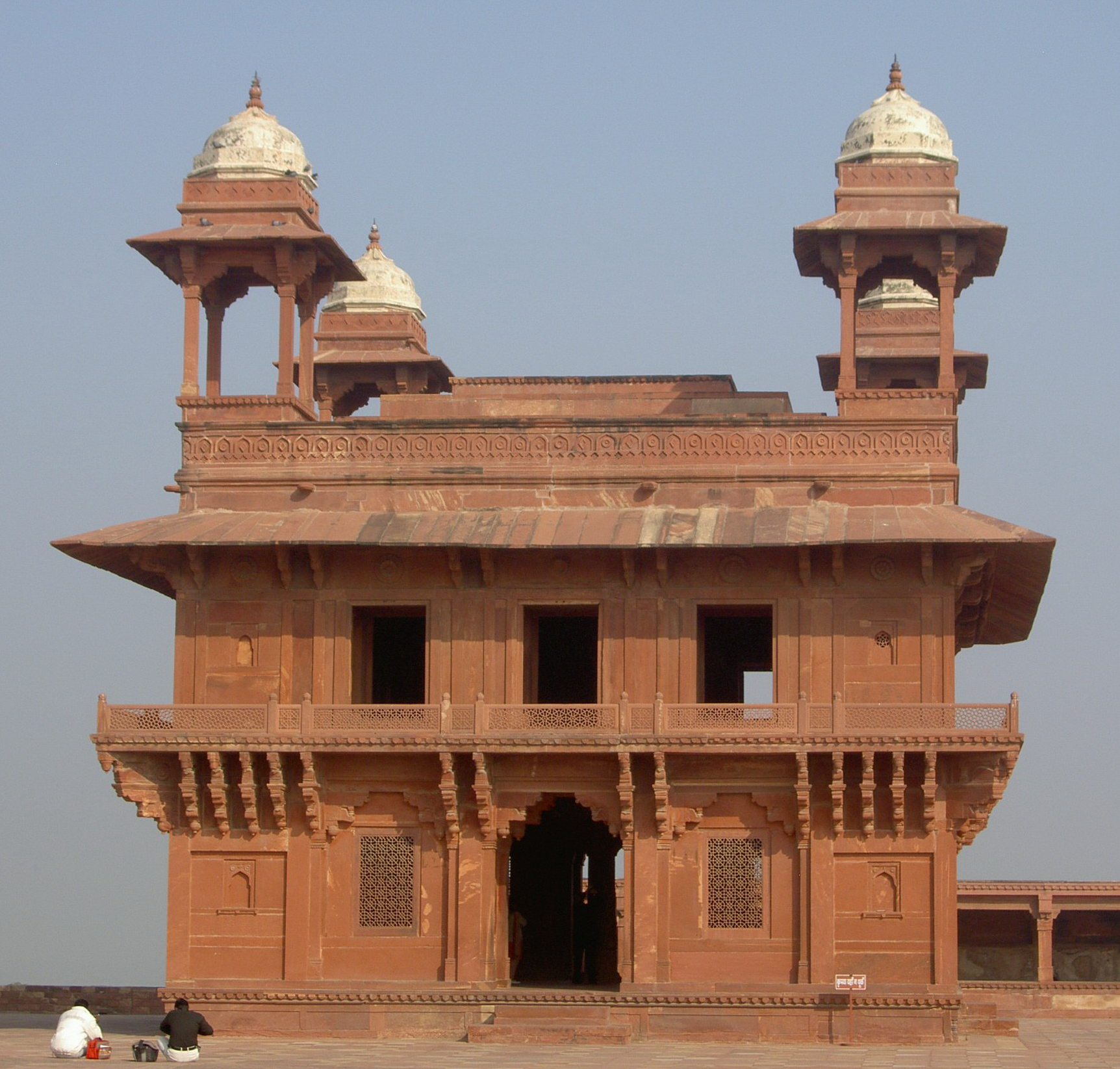 Diwan-i-Khas, Fatehpur Sikri, India